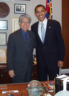 Senator Daniel Akaka with then Senator Barack Obama at Akaka's office in Washington D.C.